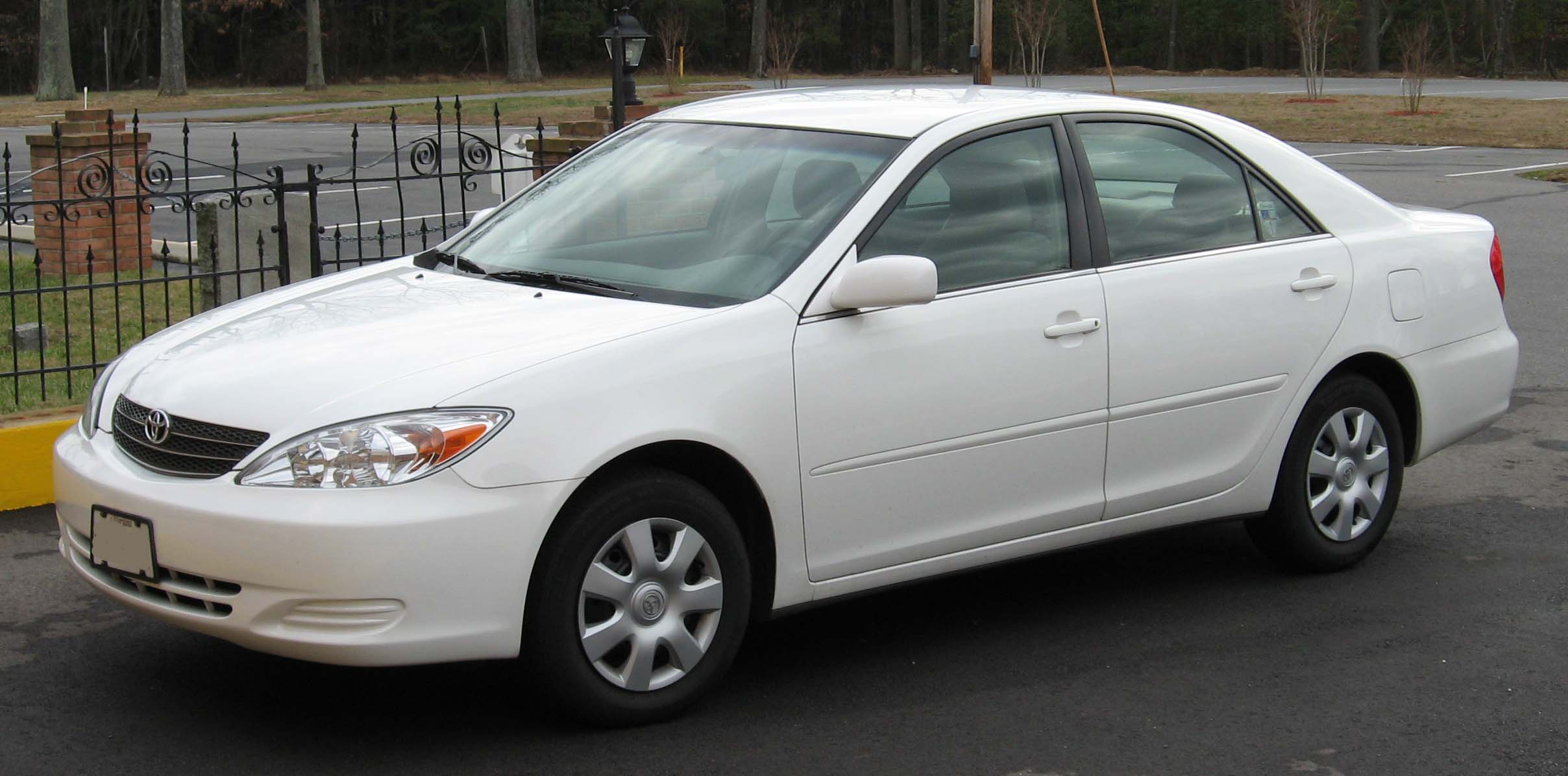 2002-2004 Toyota Camry photographed in USA.